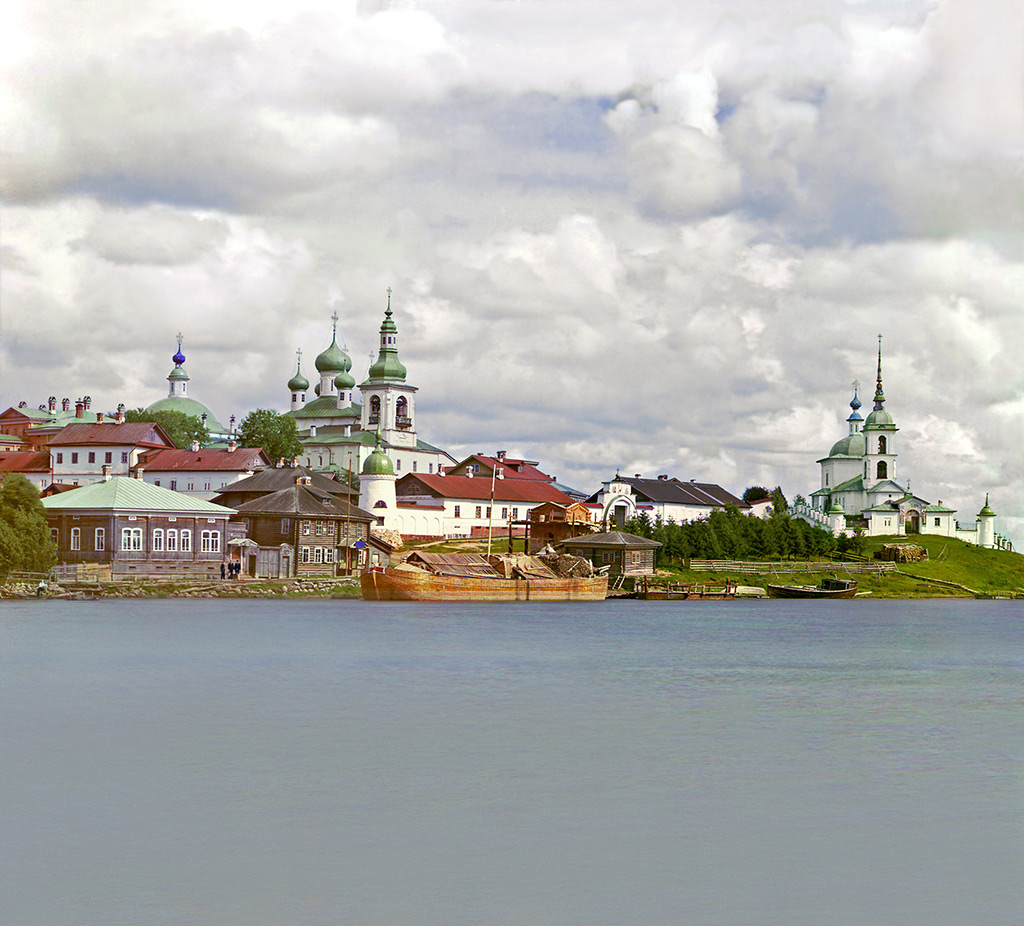 Goritsky Monatery, Photo by Prokudin-Gorsky, July 1909